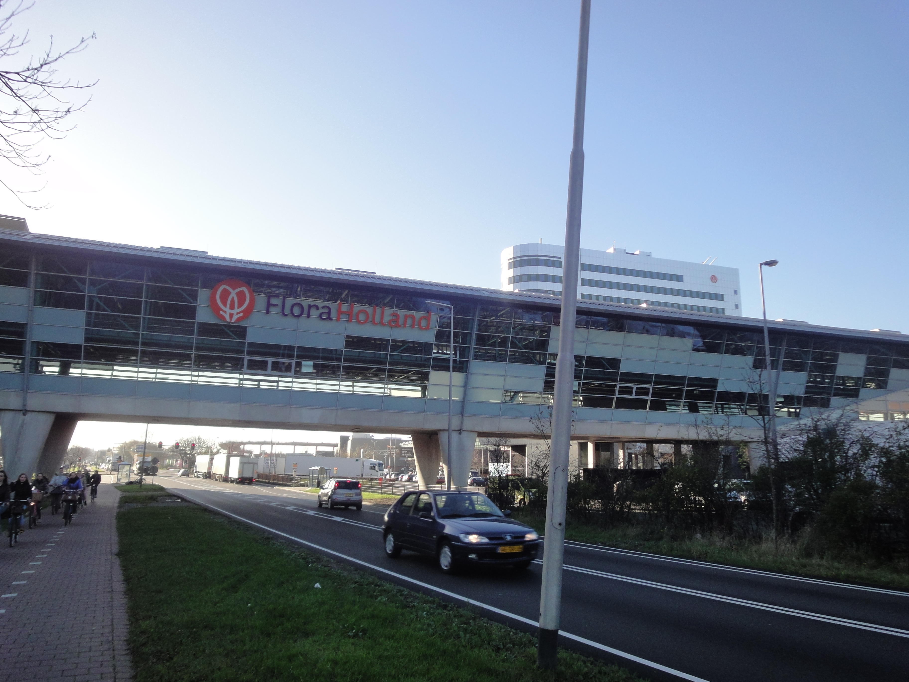 FloraHolland flower auxion in 2012